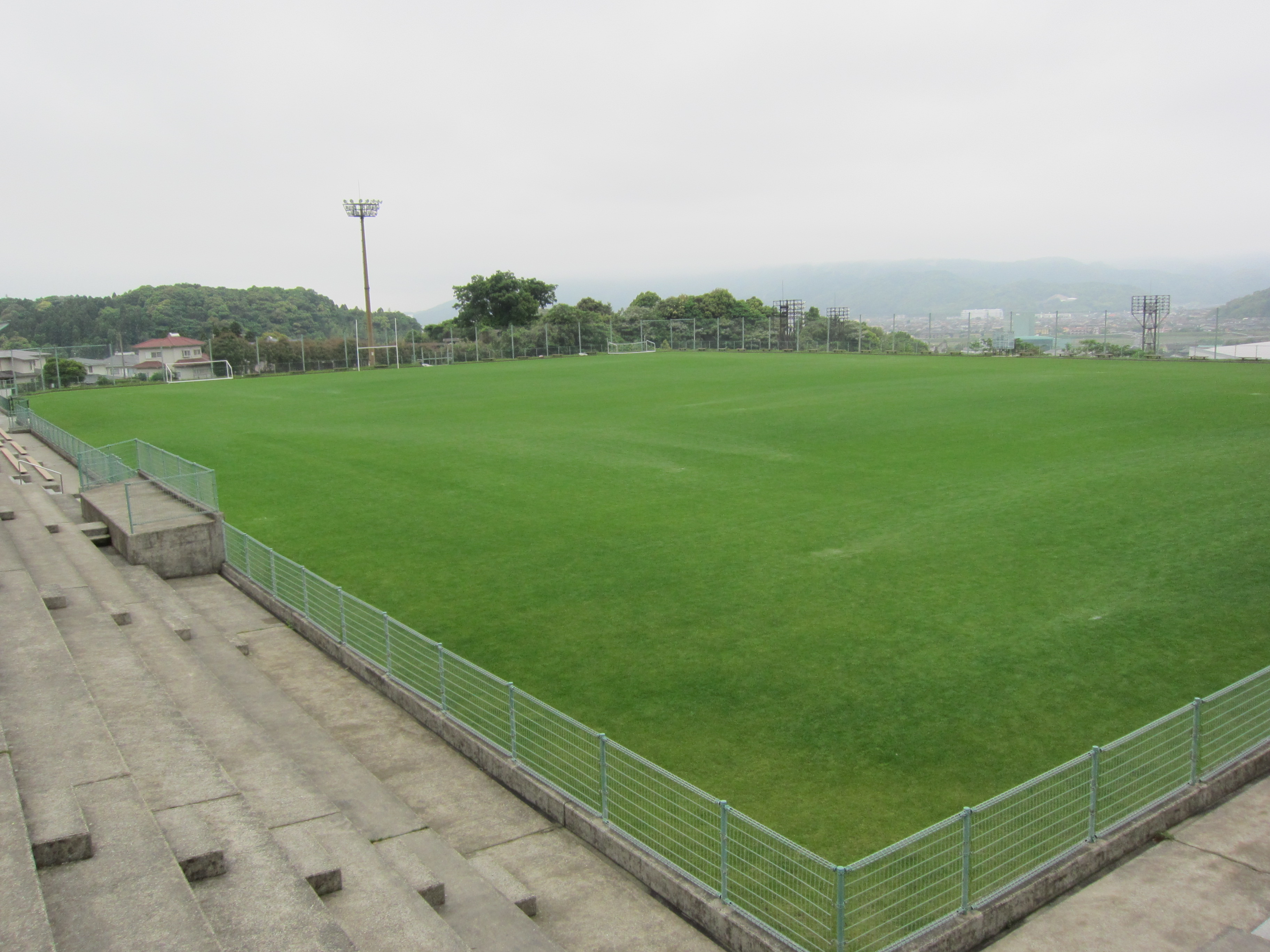 Kokubu Stadium